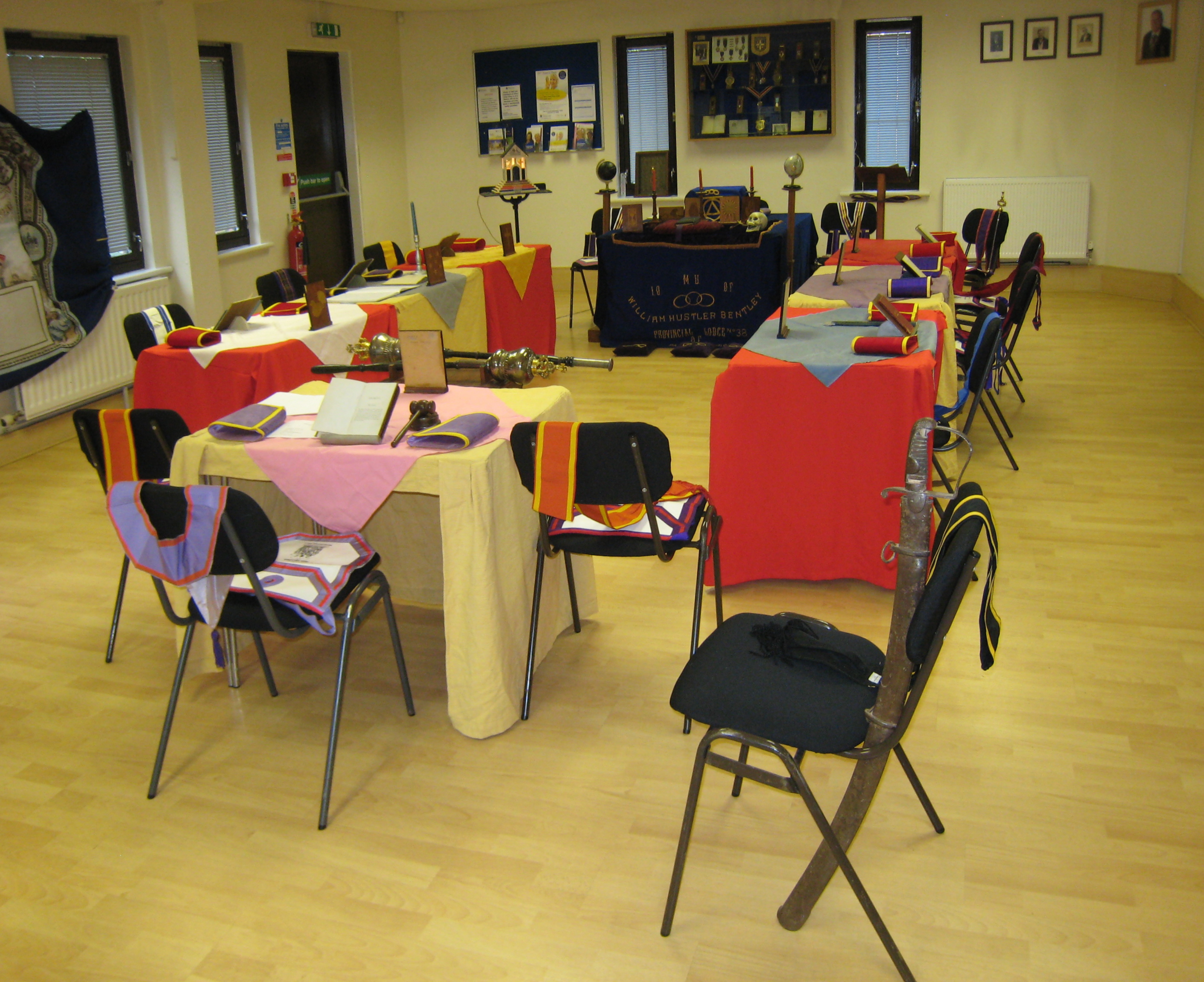 Meeting room of Odd Fellows, Leeds. Laid out for a ritual meeting. On the front is a chair with a sword for a guardian to secure the door.